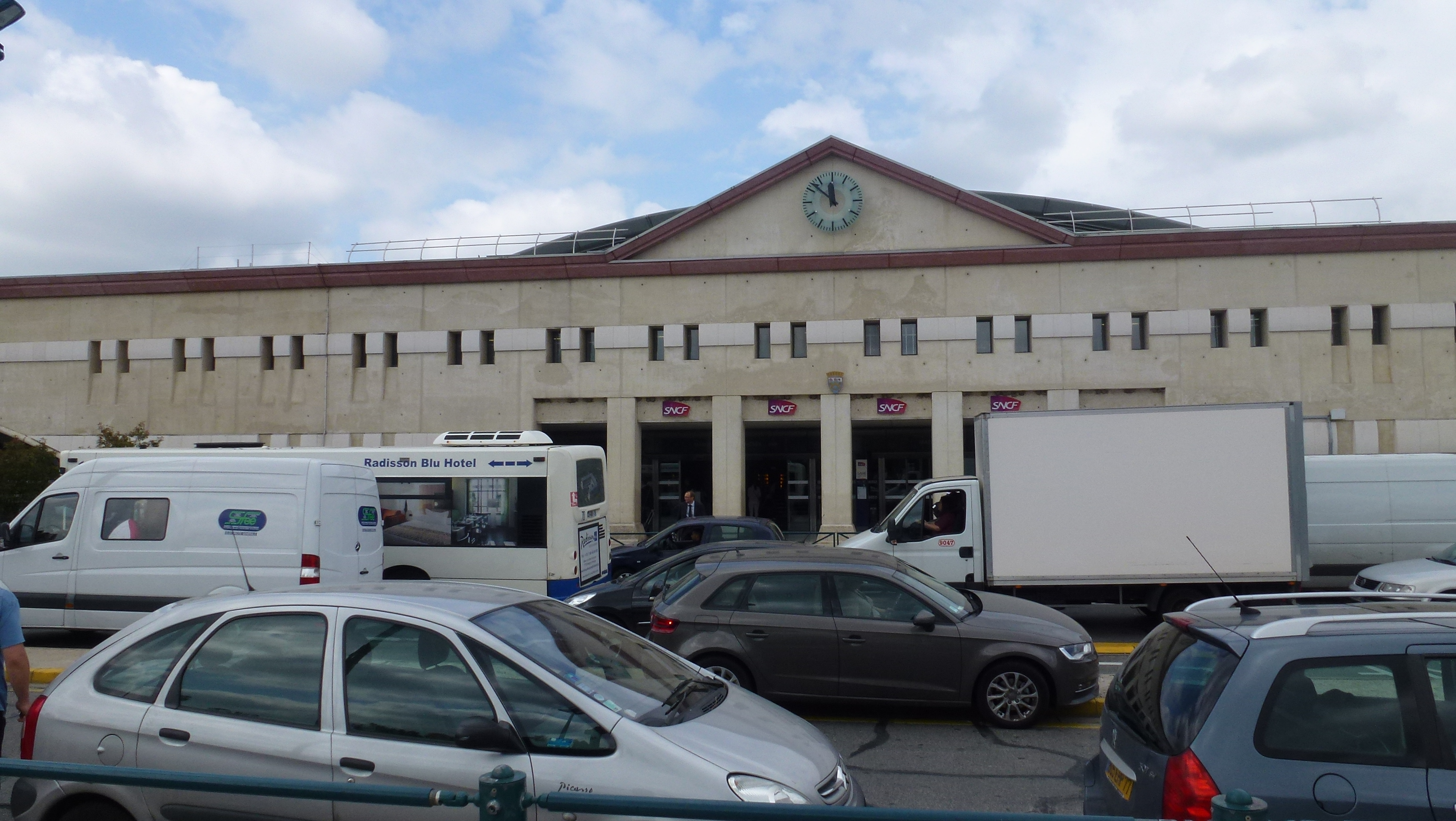 77700 Chessy, France